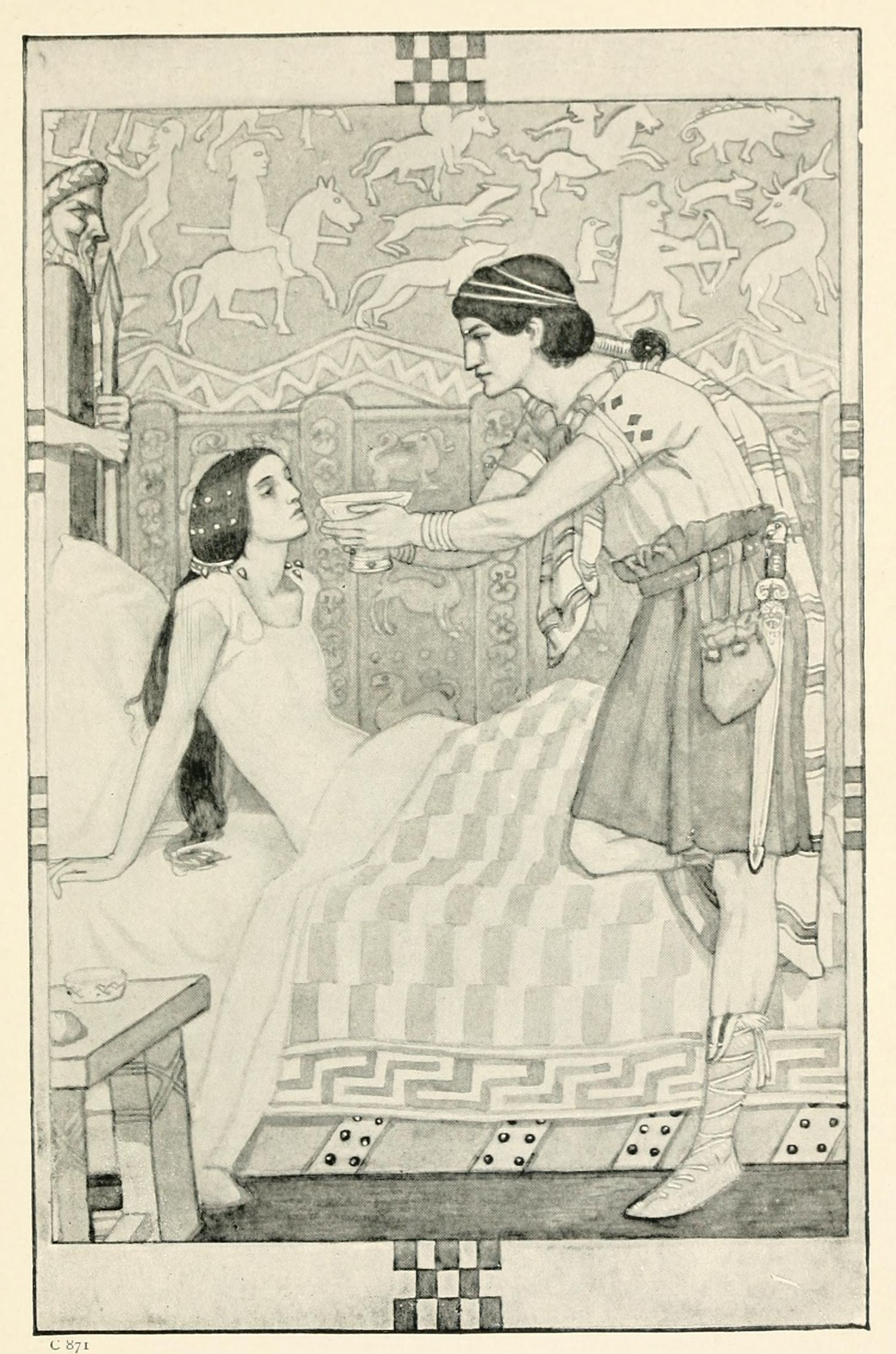 "The cup of healing" from The Princess of Land-under-Waves